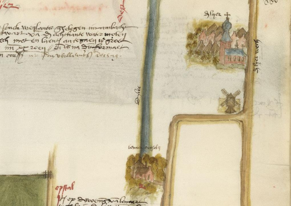 Map of De Lier, the Netherlands. The church is displayed which is burned down in 1572. Map belonged to a monastery in 's-Gravenzande. The lands belonged to this monastery are shown.